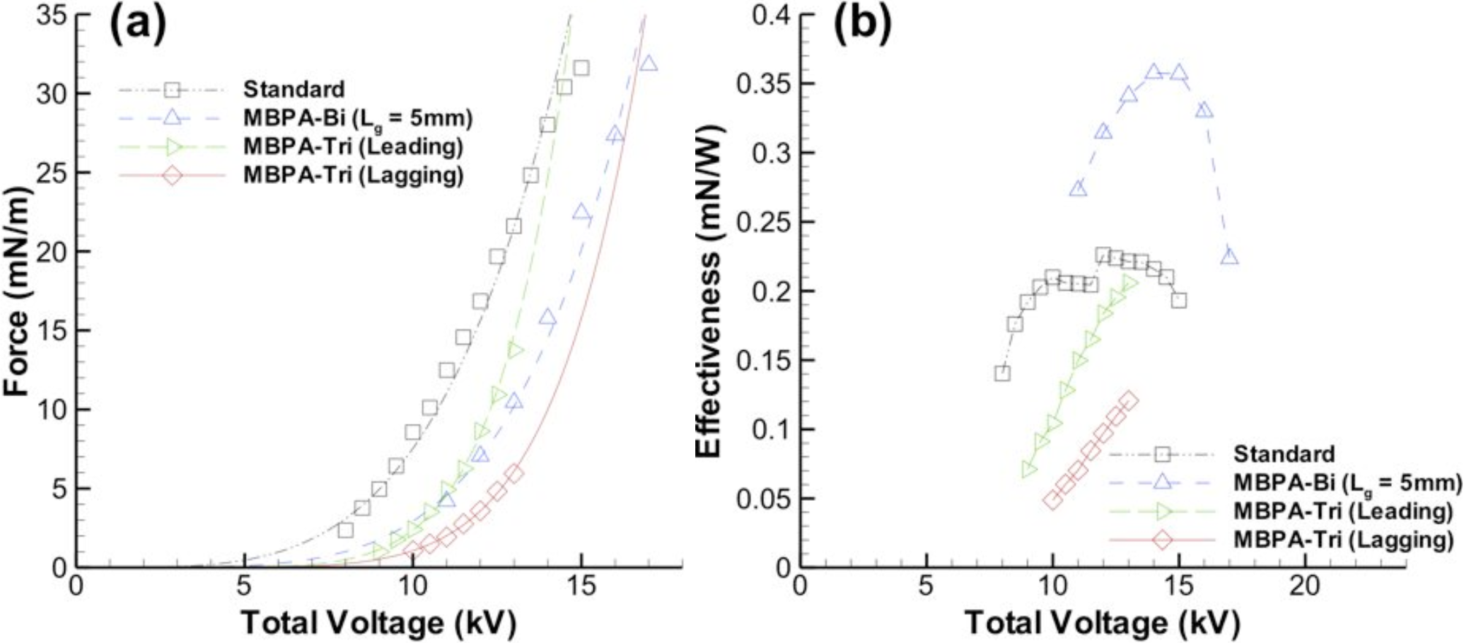 Comparison of force and effectiveness between the standard dielectric barrier discharge plasma actuator (DBD) design and various multi-barrier plasma actuator (MBPA) designs.